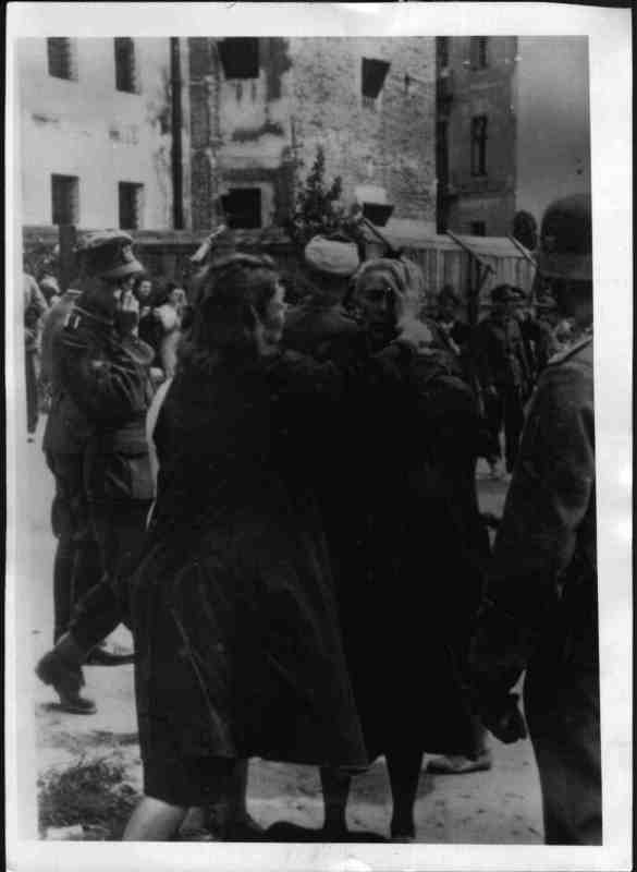 NKVD prisoner massacres 05.07.1941